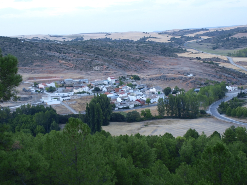 Panorámica Tórtola